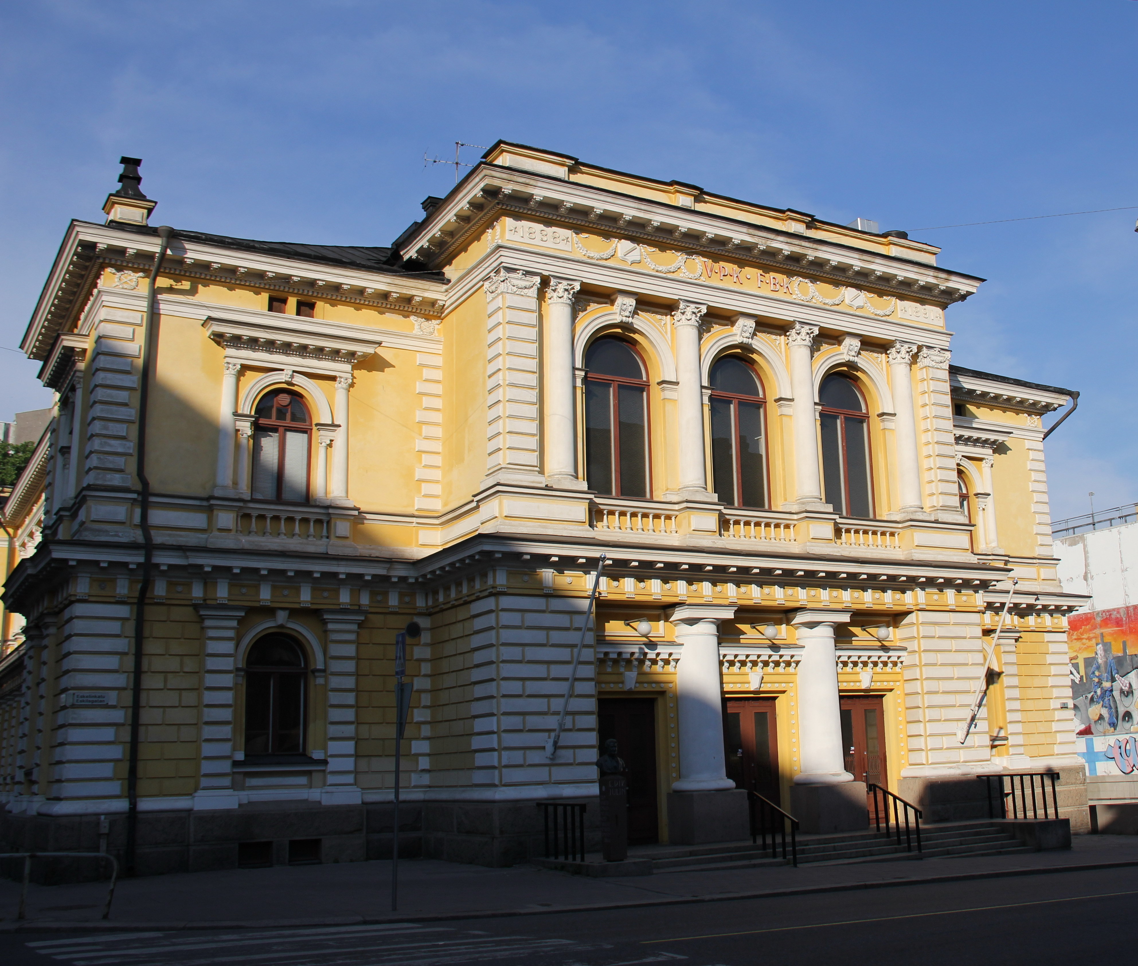 Turku volunteer fire department building, Turku, Finland. Completed in 1892 in neo-renaissance style. Architect Karl Viktor Reinius. Main entrance. In front of it bust of Erik Julin (1873) by Finnish sculptor Walter Runeberg (1838–1920). Unveiled in 1948 and again in this new location in 2012.